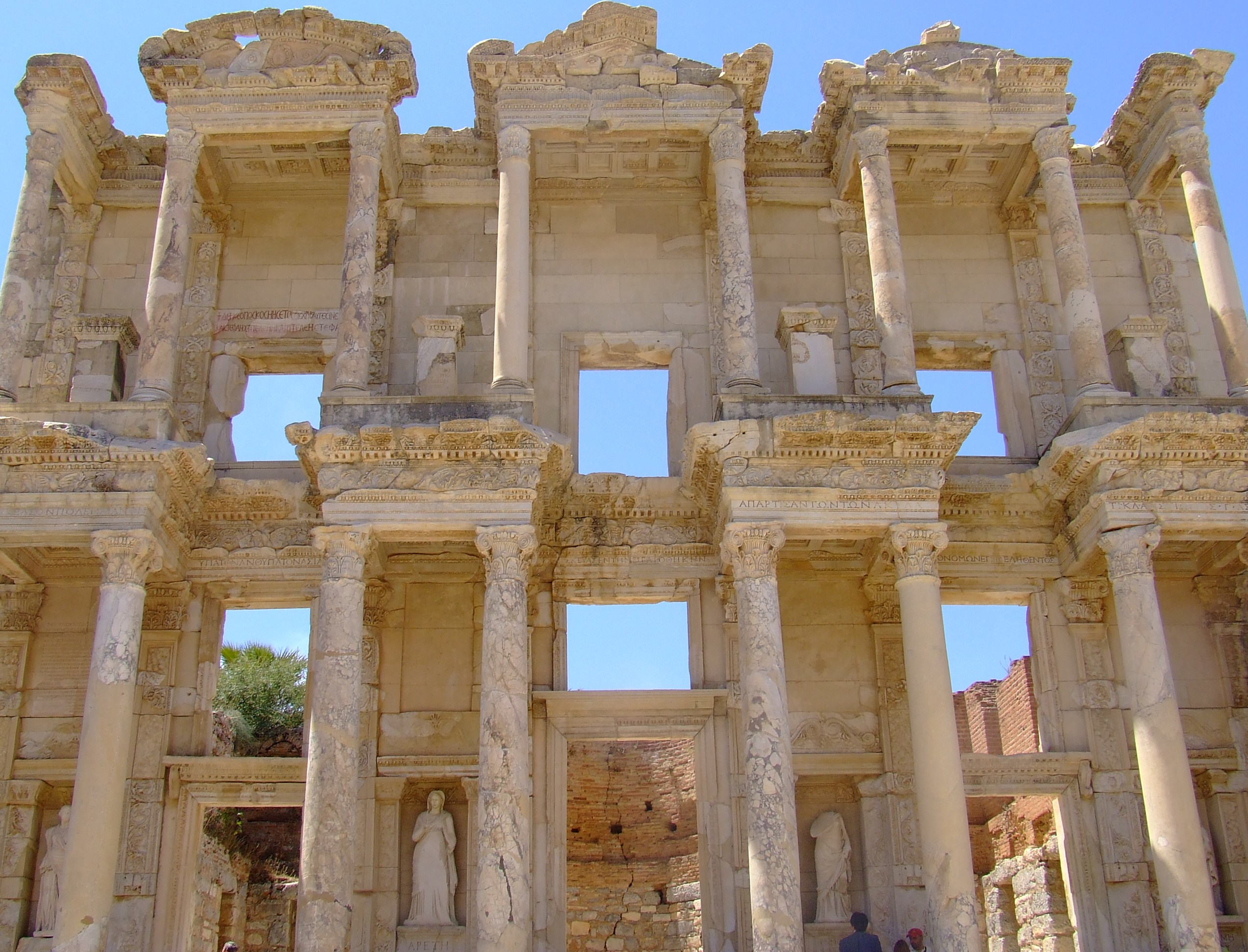 The restored facade of the Library of Celsus in Ephesus, Turkey